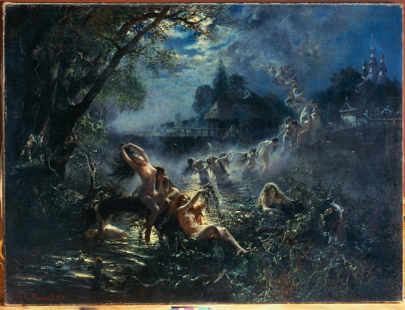 Konstantin Makovsky. Rusalki. 1879